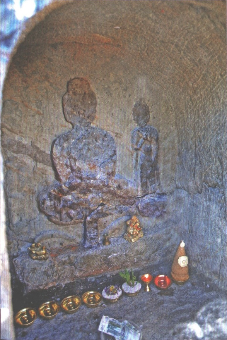 Nisha Sume